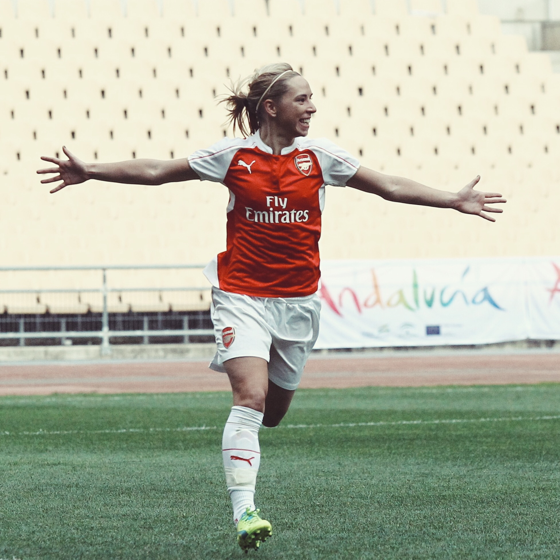 Jordan Nobbs of Arsenal Ladies celebrates her goal during the game against Bayern Munich.